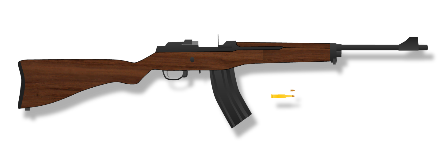 Illustrations of a Wikipedia:Ruger 10/22 with 10 rounds magazine of ammunition, and the .22 caliber bullet which is fired.